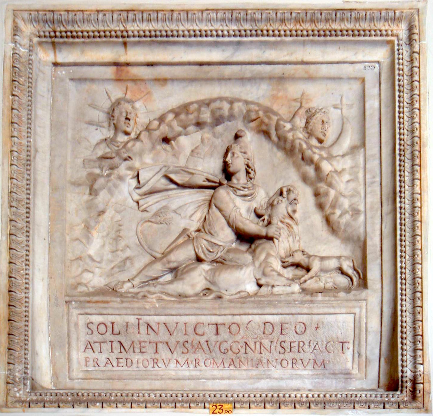 The image is a standard one of Mithras killing the bull in the Tauroctony. This image is relatively simple and omits many elements found in other depictions. The killing takes place in a cavern. Top left is Sol, recognisable by his flaming crown. Top right is Luna. Beneath the bull, the dog and the snake lick up the blood.